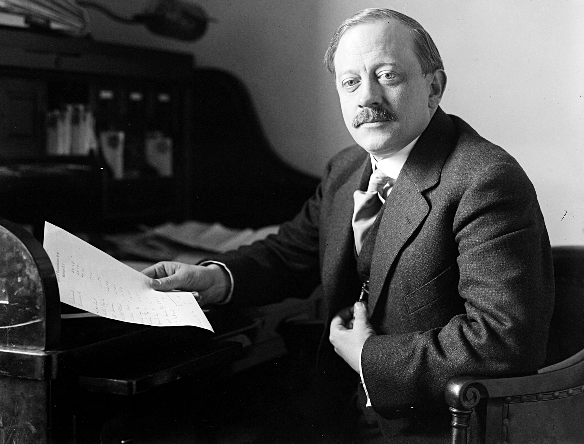 Charles Archibald Nichols, US Representative from Michigan